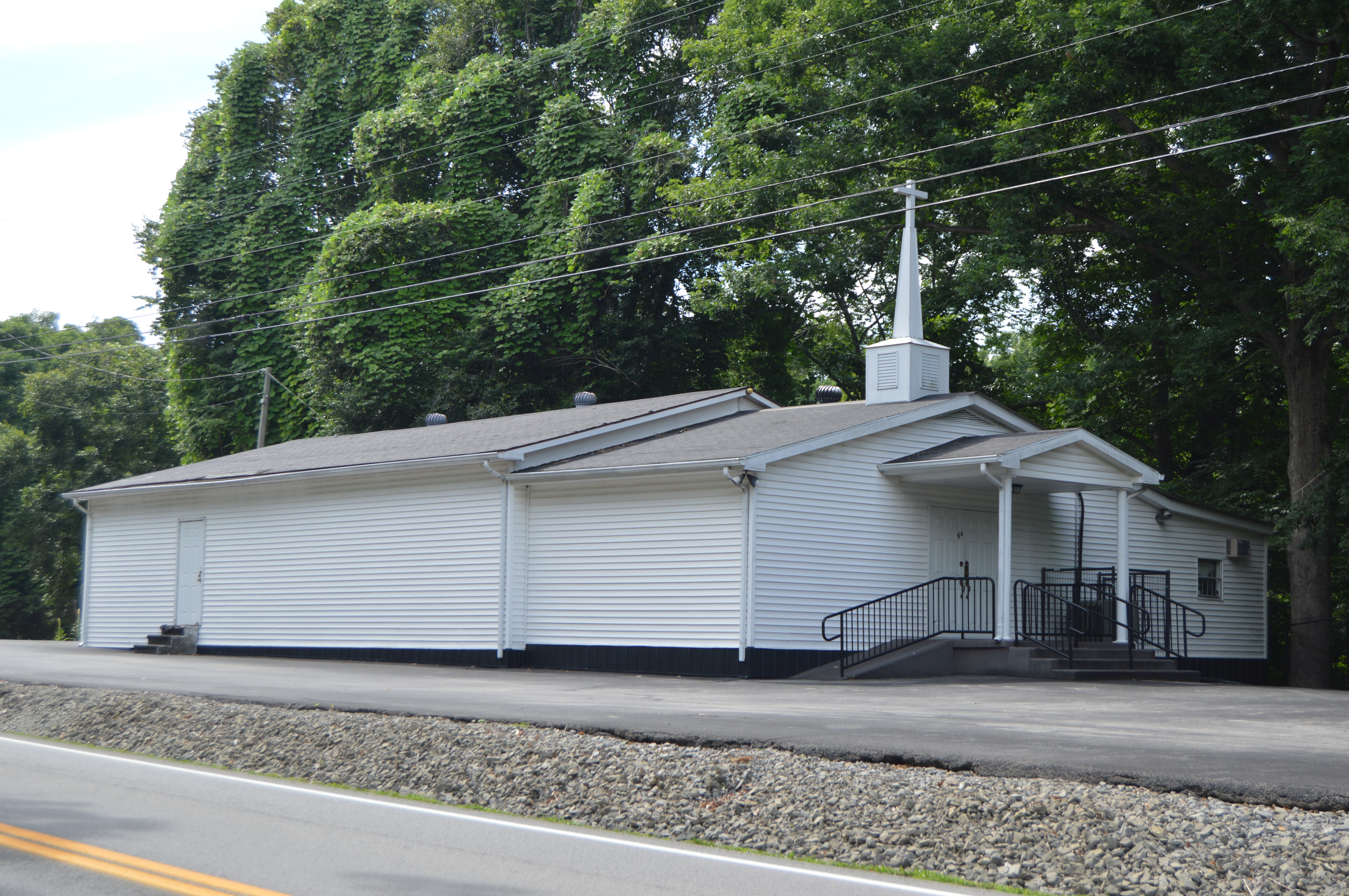 Front and southern side of the New Friendship United Baptist Mission, located on U.S. Route 127 at Rowena in Russell County, Kentucky, United States.